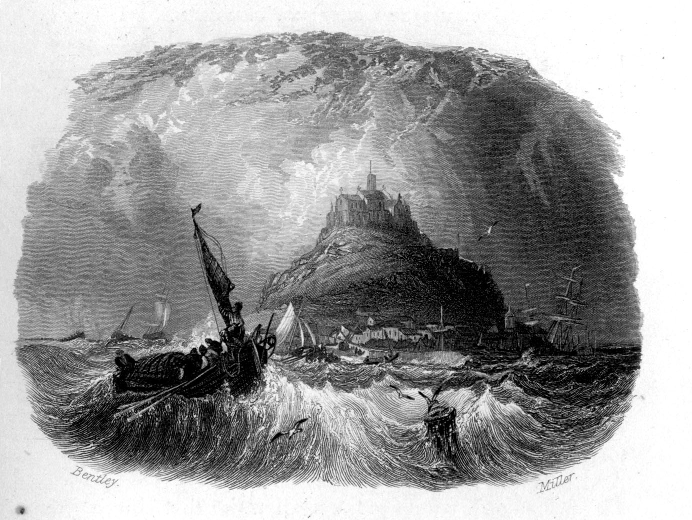 St Michael's Mount, engraving by William Miller after Bentley, published in The Book of Gems from the Poets and Artists of Great Britain. The Eighteenth and Nineteenth Century. Wordsworth to Tennyson. Hall, Samuel Carter. Bell and Daldy, London 1866.